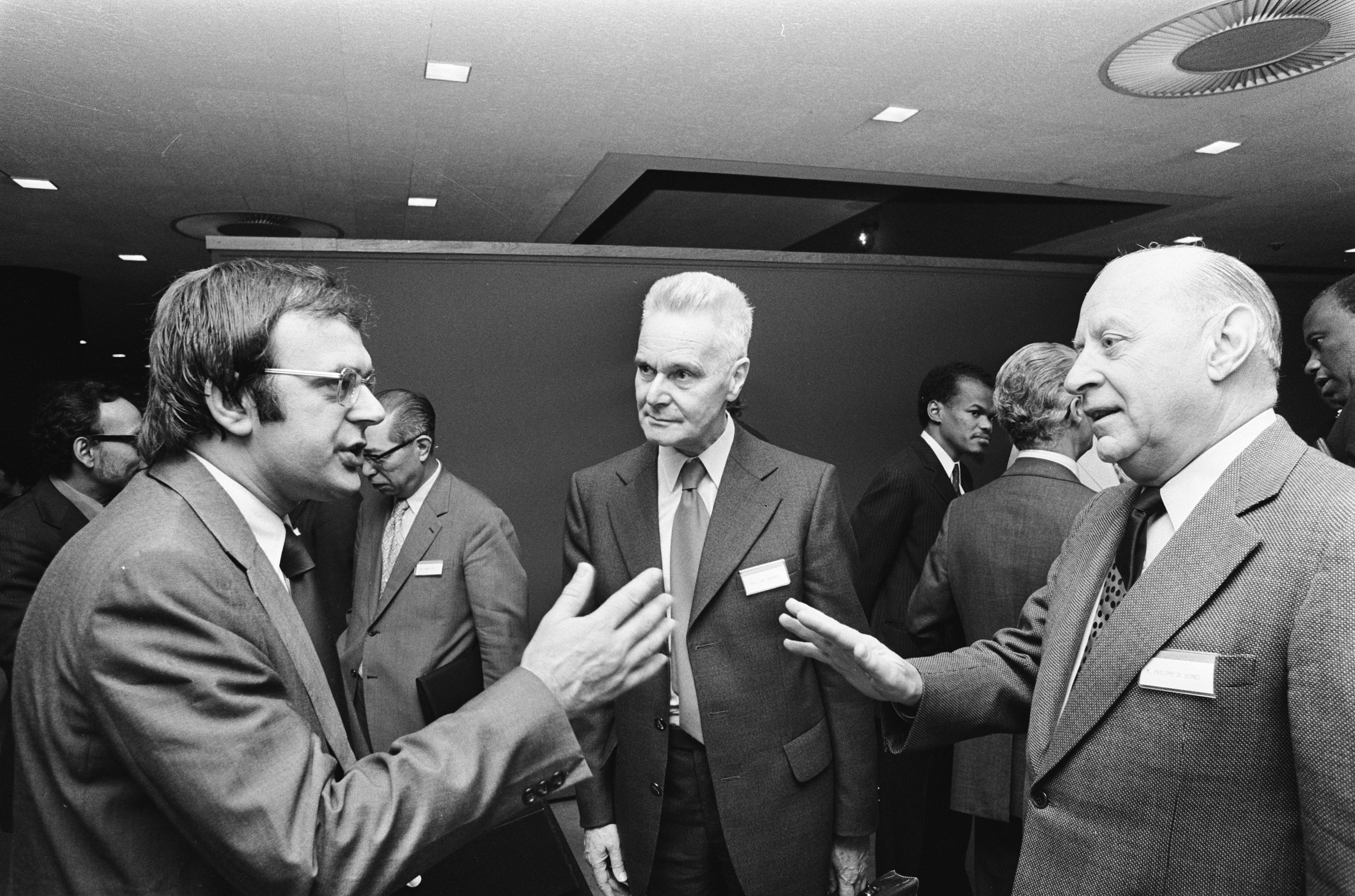 Minister Pronk, prof. Tinbergen and De Seynes, Economy symposium in Den Haag